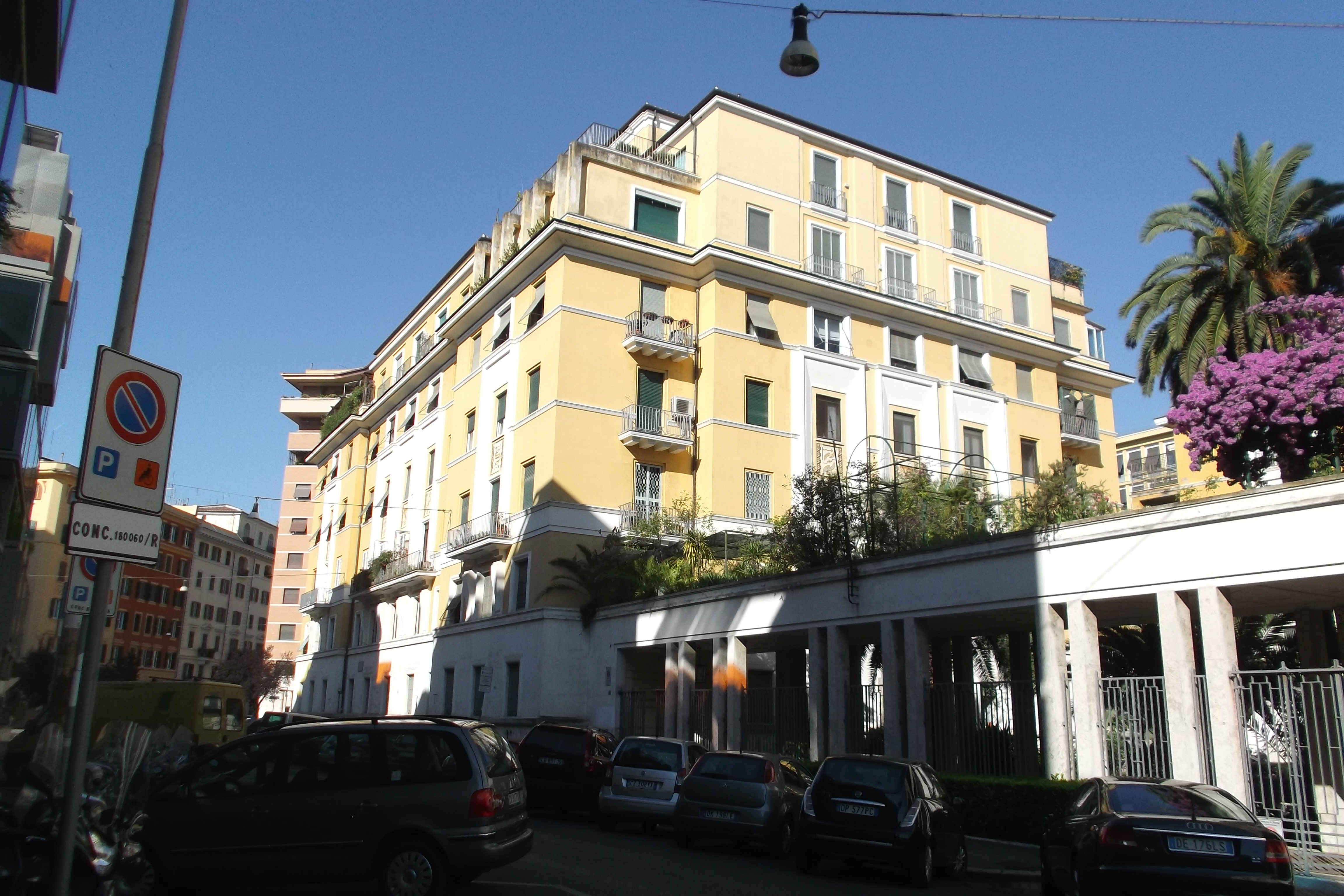 Flat building in via Carlo Poma 2, Rome. In this place was murdered Simonetta Cesaroni in 1990. To date the case is still unresolved.